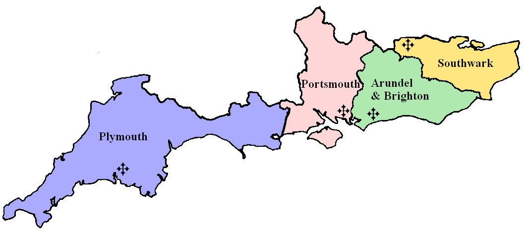 Catholic Province of Southwark. This is a current map of the ecclesiastical province in the Catholic Church. The crosses mark where the current Cathedrals of each diocese is located. The specific dioceses are in different colours.